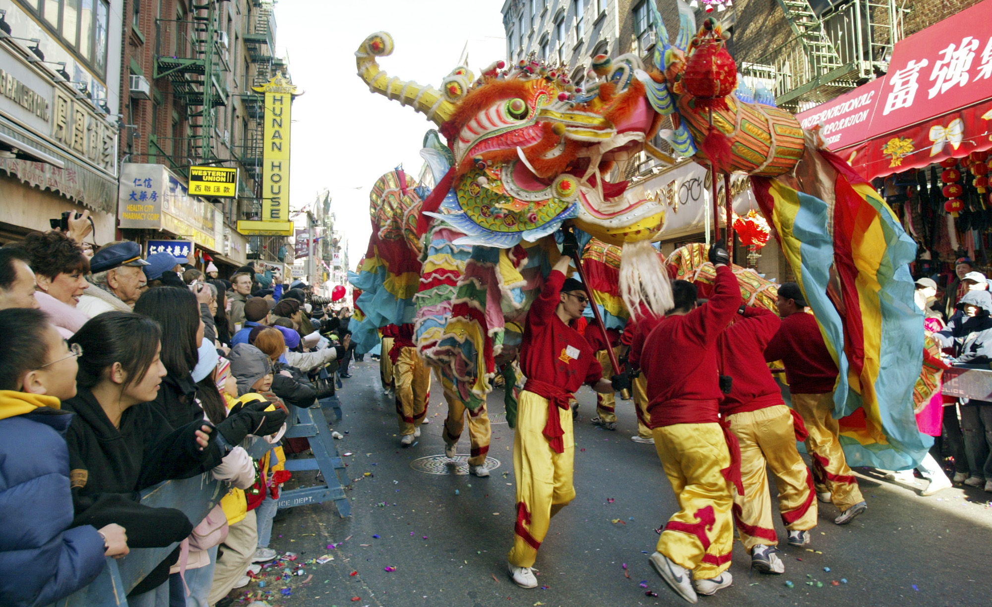 Lunar New Year celebration in Chinatown NYC. For more info on upcoming Chinatown NYC events and celebrations, visit: Photo credit: Explore Chinatown